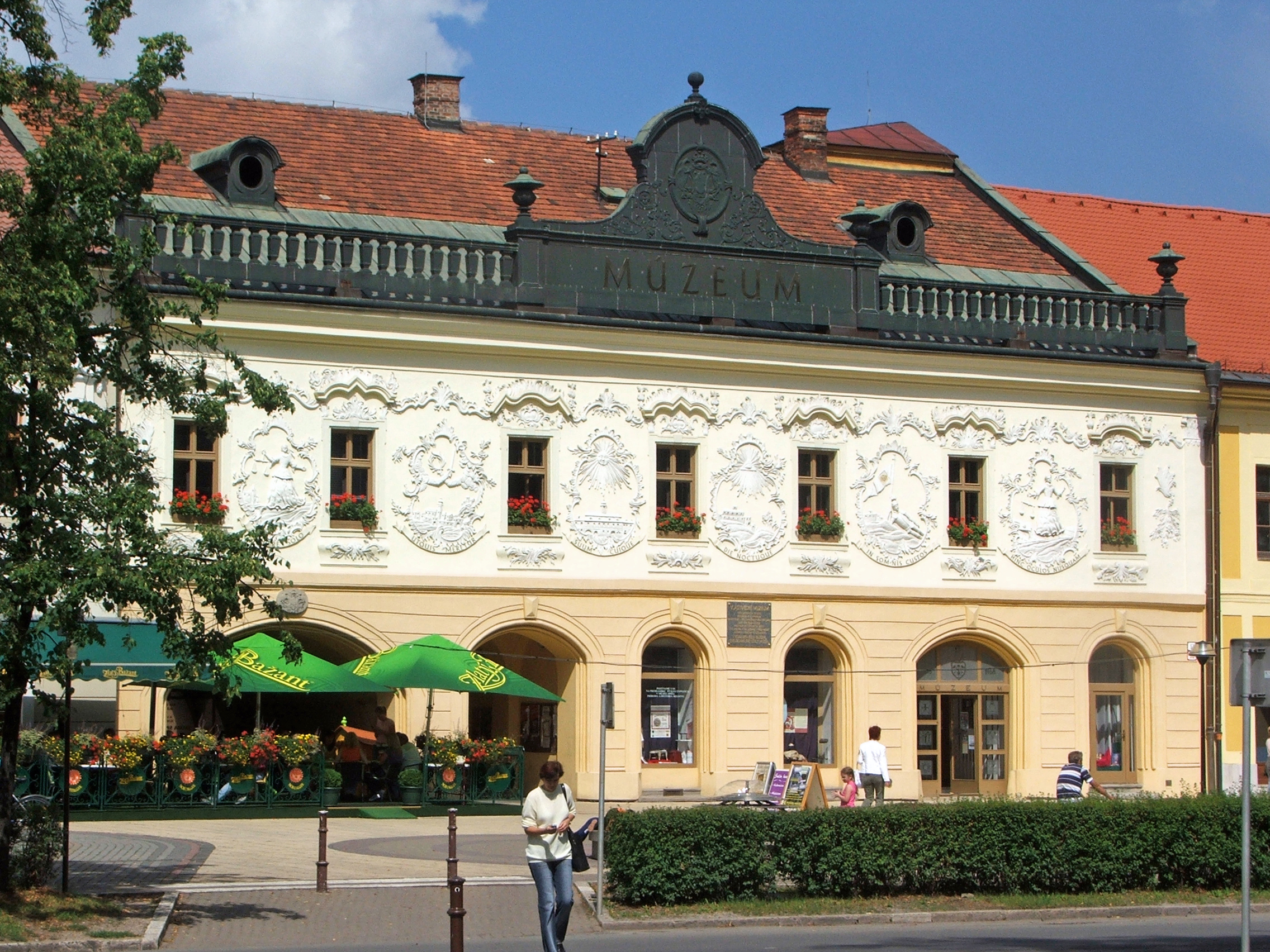 The Museum of the Spiš Region, Spišská Nová Ves in the historical buiding of the Provincial House.